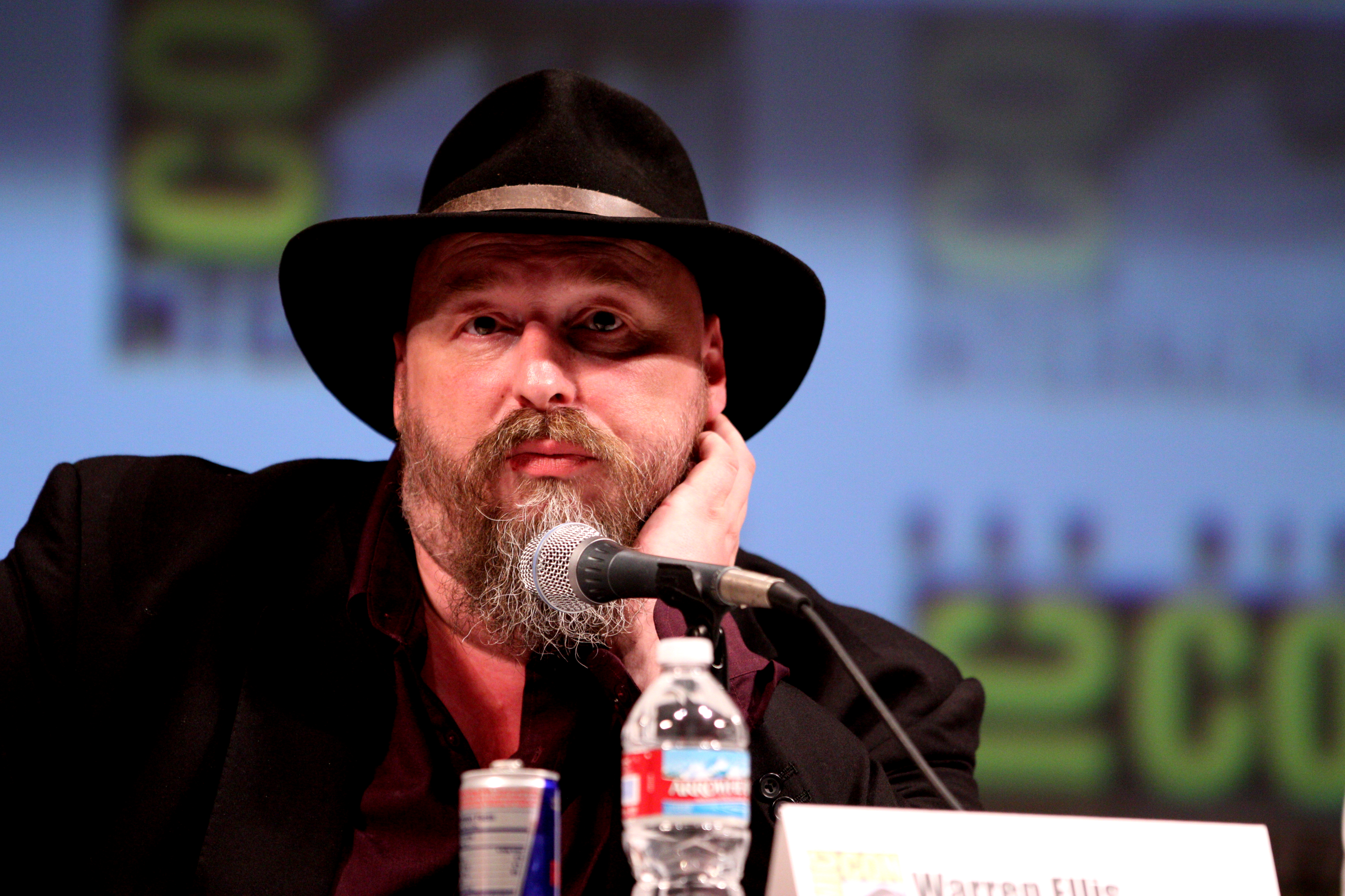 Author Warren Ellis on the Red panel at the 2010 San Diego Comic Con in San Diego, California.